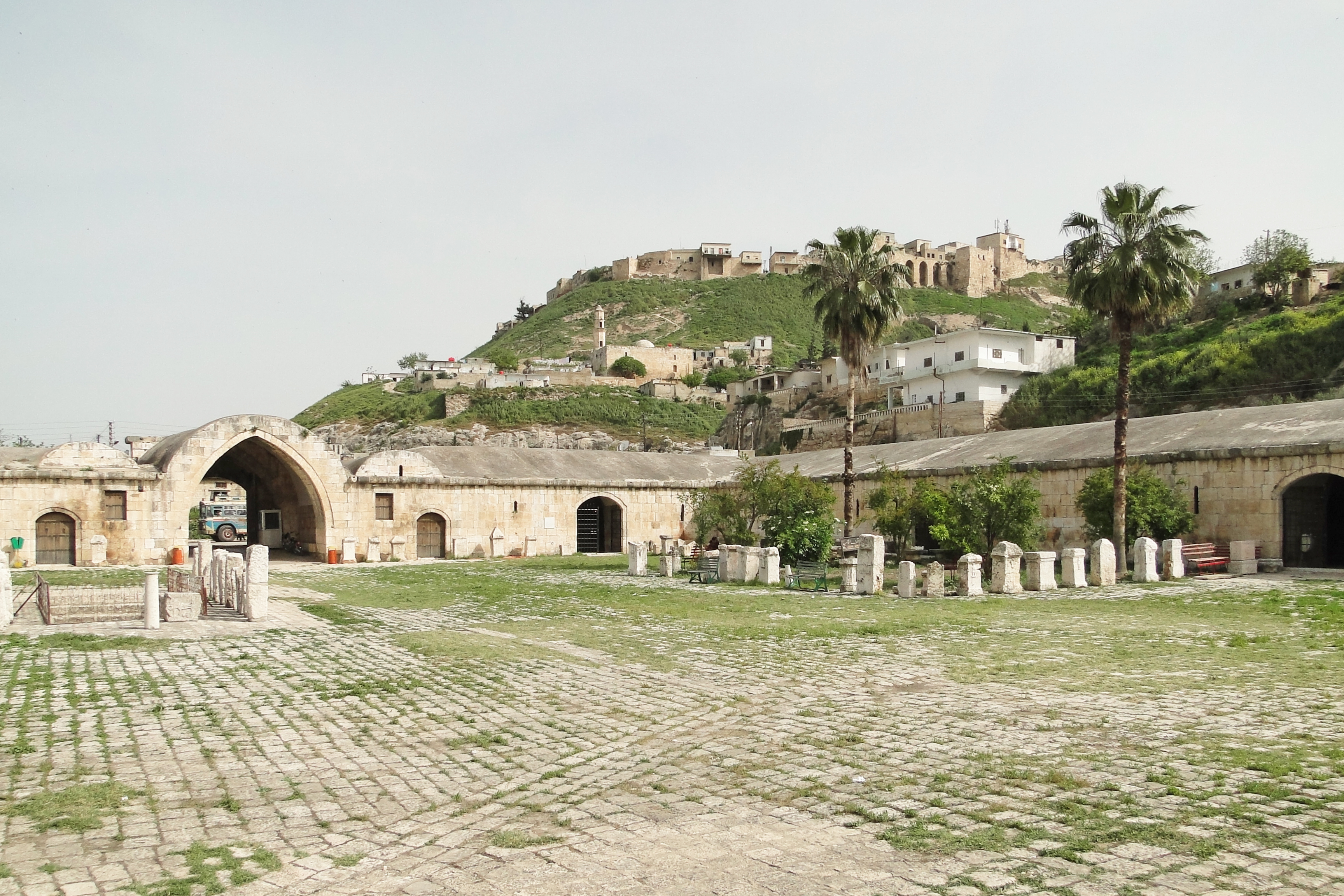 Ancient Ottoman caravanserai of Qalat el-Mudiq, Syria